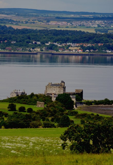 View from The Binns View of countryside near Blackness, Blackness Castle, the Firth of Forth and the village of Charleston behind. Taken from the grounds of The Binns country house.